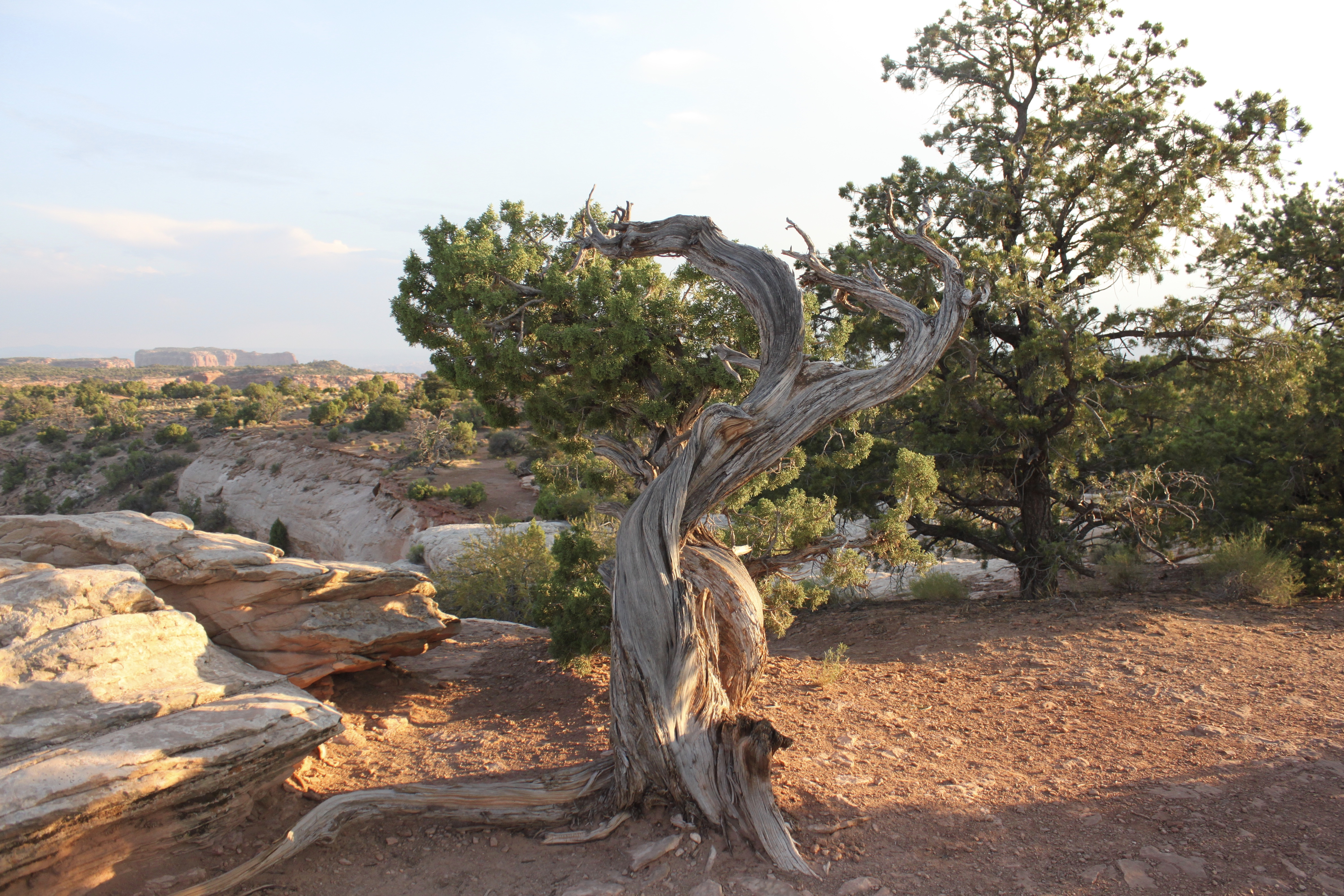 Juniperus Osteosperma in Canyonlands National Park